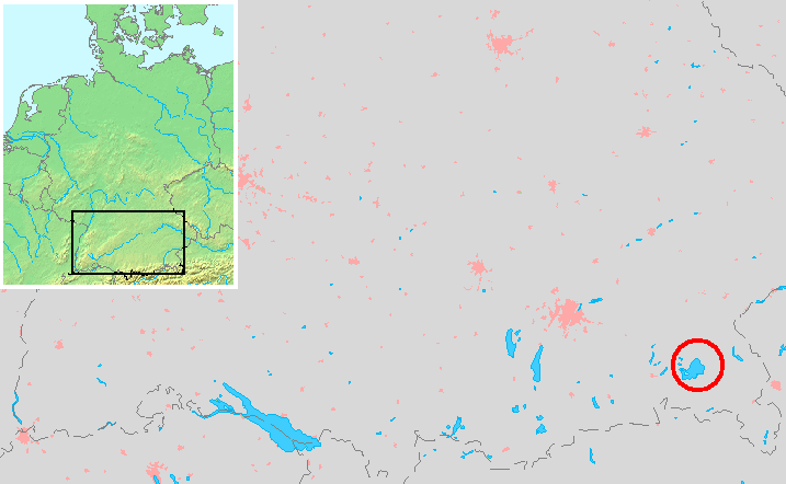 Location maps of lakes in Germany : Chiemsee